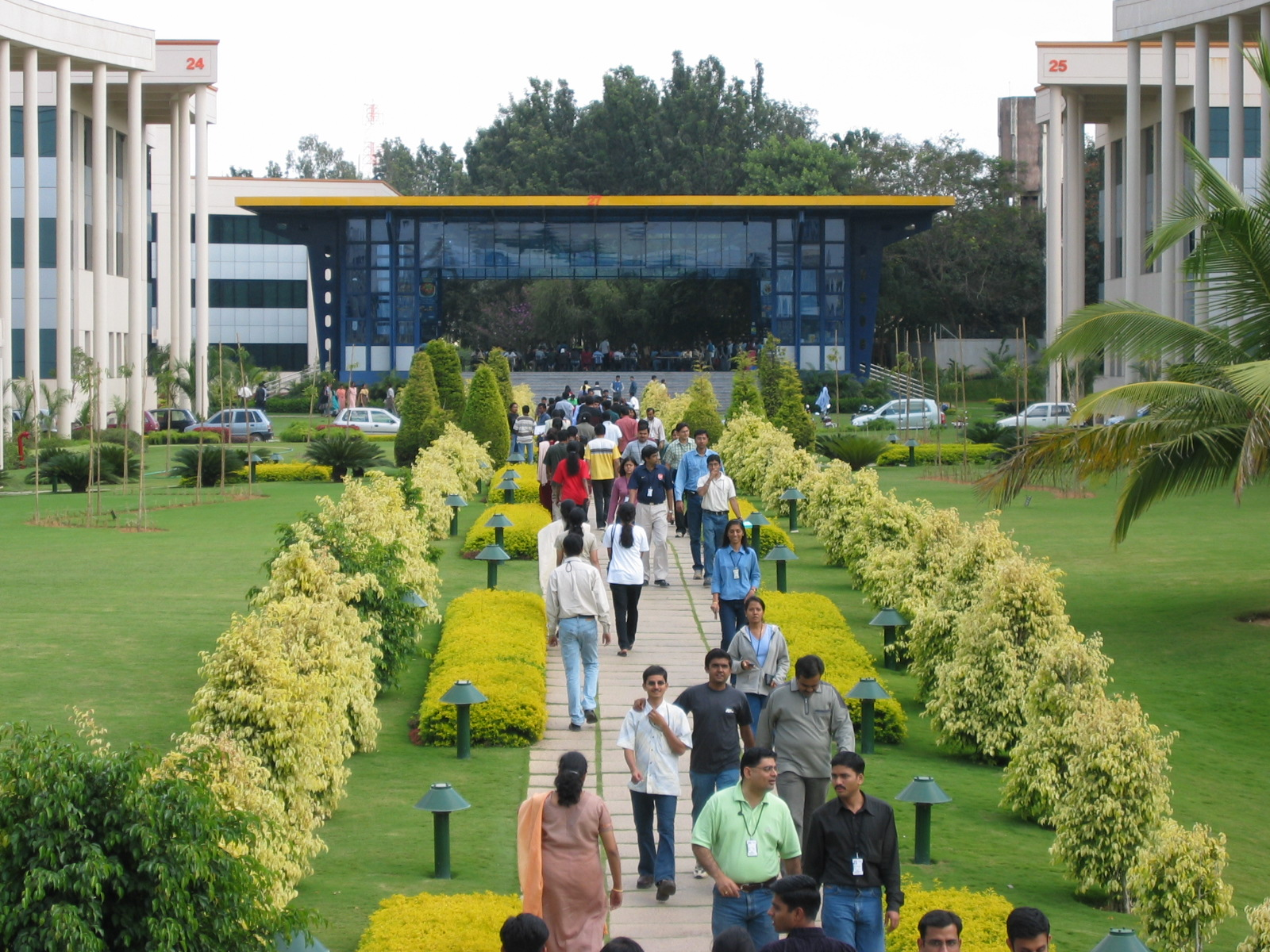 Lunch time at Electronic City campus, Infosys Technologies Ltd., Bangalore, India.